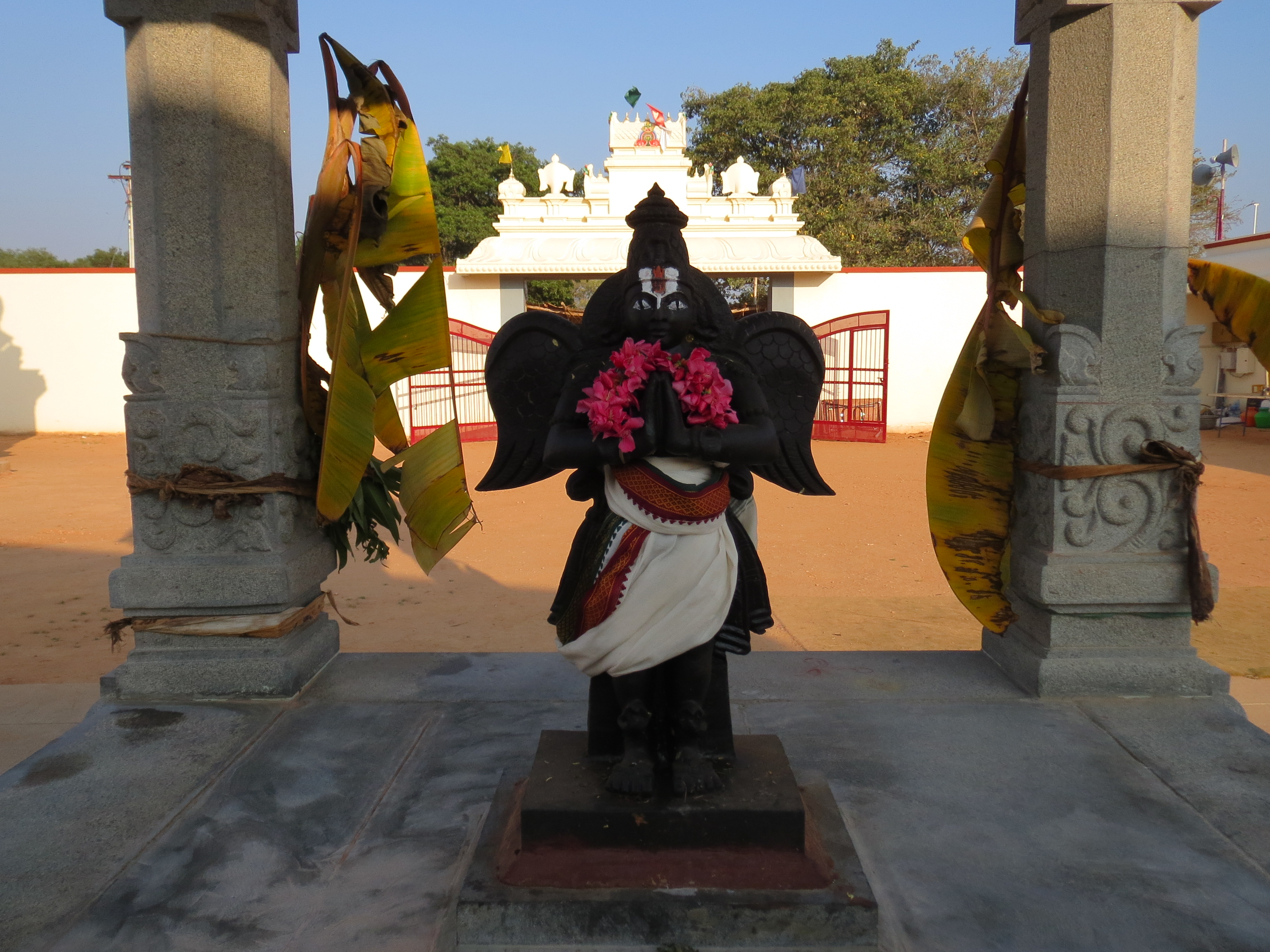 Garudazhwar-Venkatesaperumal temple, parameswaranpalayam (coimbatore)